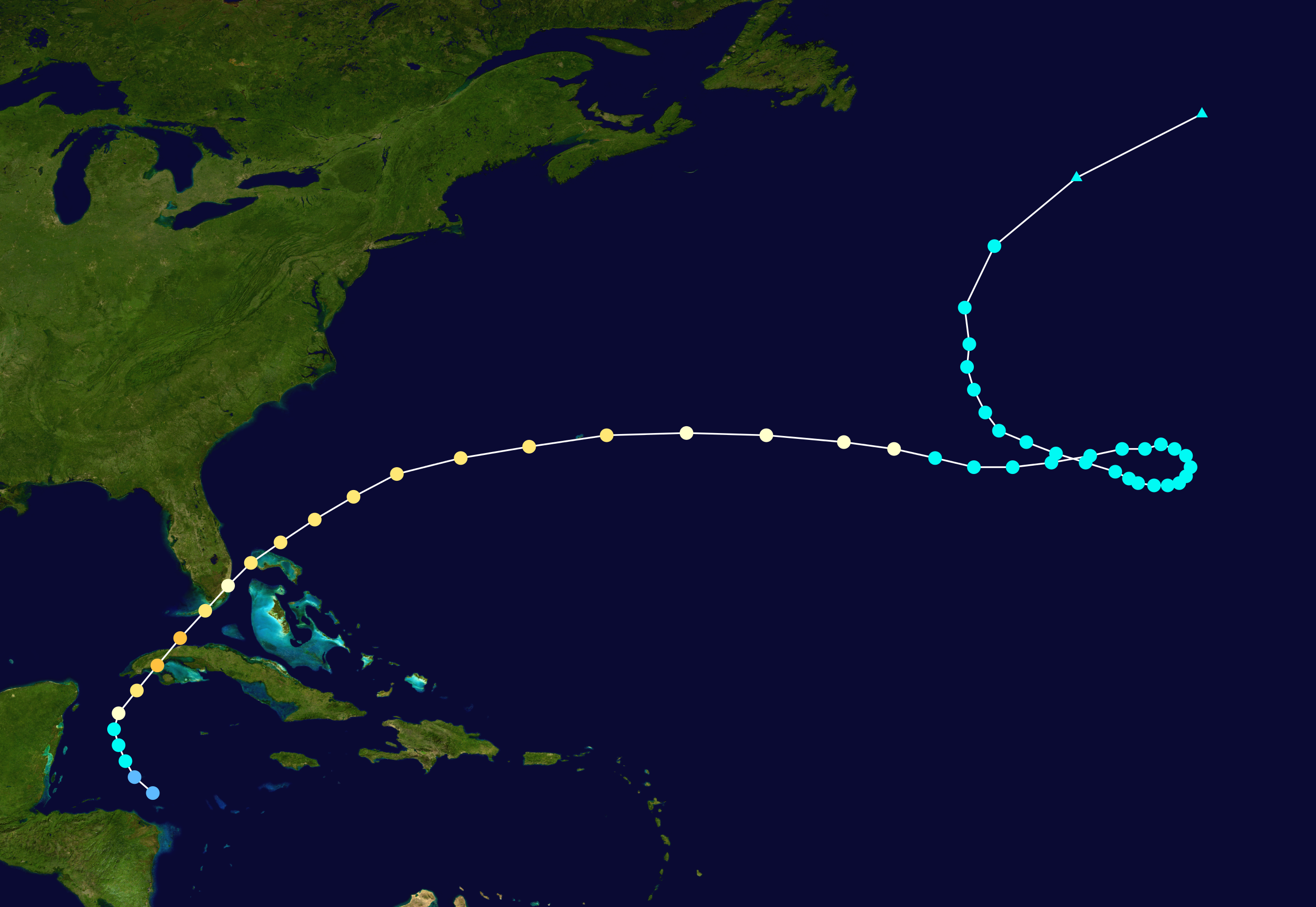 1948 Atlantic hurricane 8 track. Uses the color scheme from the Saffir-Simpson Hurricane Scale.